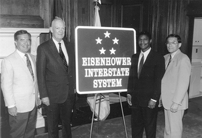 Original caption: "The standard road sign for the Dwight D. Eisenhower National System of Interstate and Defense Highways, designed by FHWA and the American Association of State Highway and Transportation Officials, was unveiled in a ceremony on Capitol Hill on July 29, 1993. Left to right: Chairman Nick J. Rahall (D-WV) of the House Surface Transportation Subcommittee, John Eisenhower (President Eisenhower's son), Federal Highway Administrator Rodney E. Slater, and Chairman Norman Y. Mineta (D-CA) of the House Committee on Public Works and Transportation."